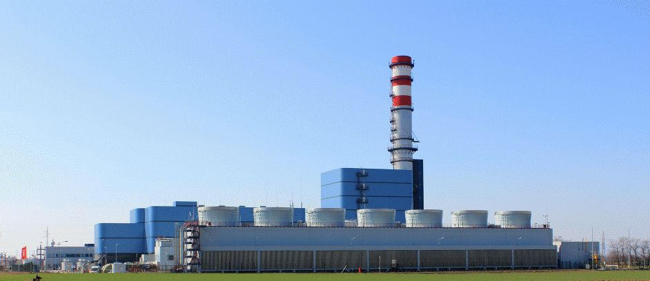 The E.ON CCPP Malženice in Trakovice (Slovakia).